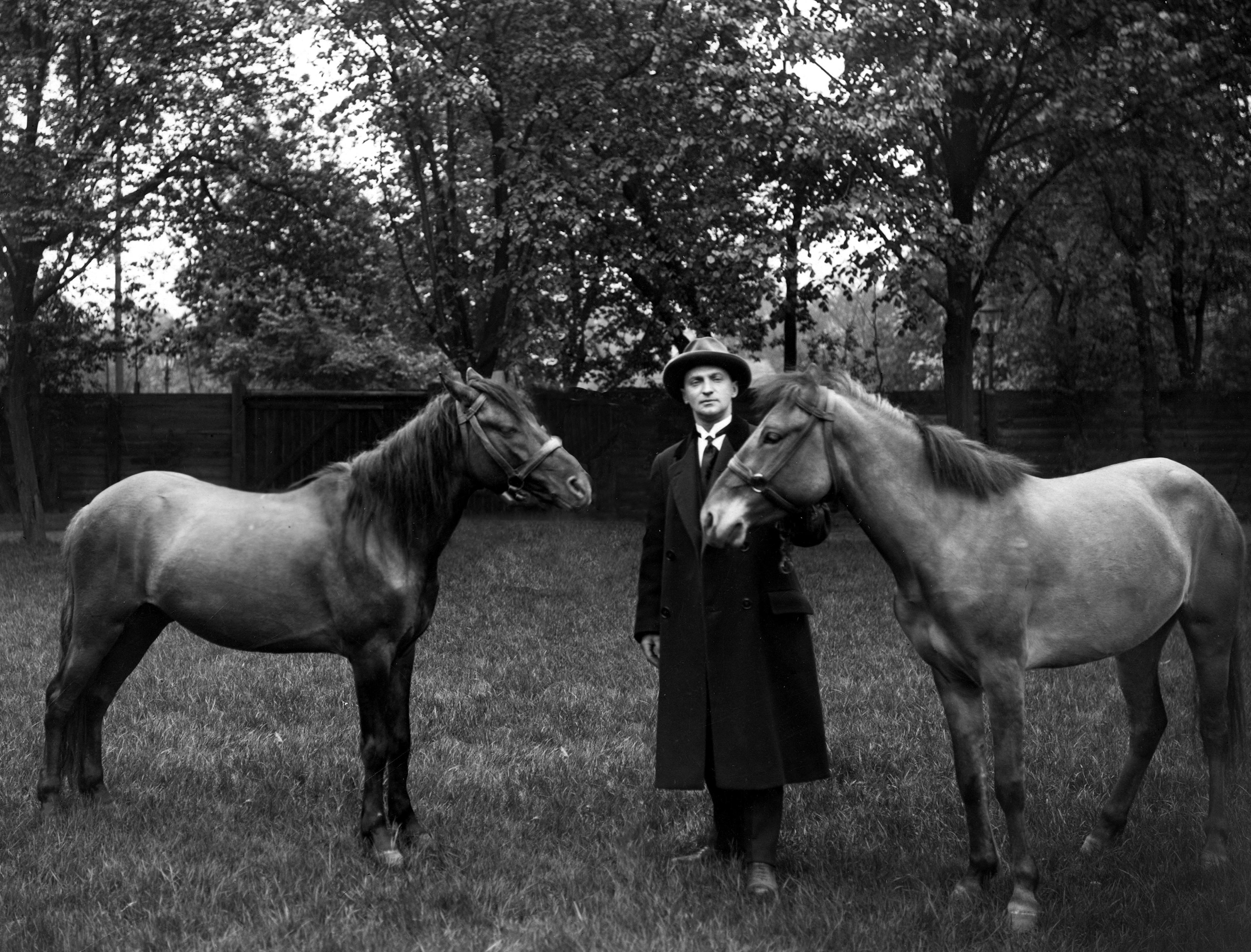 A rally of Polish horses (koniki polskie) from Biłgoraj to Poznań for testing their endurance for the needs of the army. Organizer of the rally Tadeusz Vetulani holding Polish pony for the bridles.